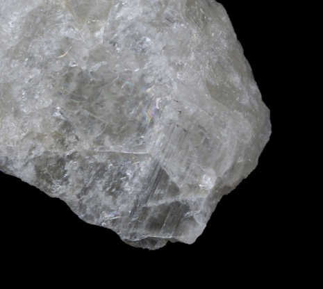 Darapskite (Size: 4.5 x 2.5 x 1.5 cm) Locality: Iquique Province, Tarapacá Region, Chile Darapskite is a rare hydrated sodium sulfate nitrate found in nitrate deposits rich in sulfates. The famous high altitude, arid nitrate deposits of Chile are host to many of the localities. Rarely available, this is a solid block of glassy, pearlescent, translucent and colorless, layered darapskite. Not showy, but an extremely rich and highly representative example of this very rare sulfate. Ex. Columbia University-American Museum or Natural History and Eugene Carmichael Collections.